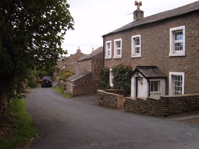 The hamlet of Masongill, North Yorkshire